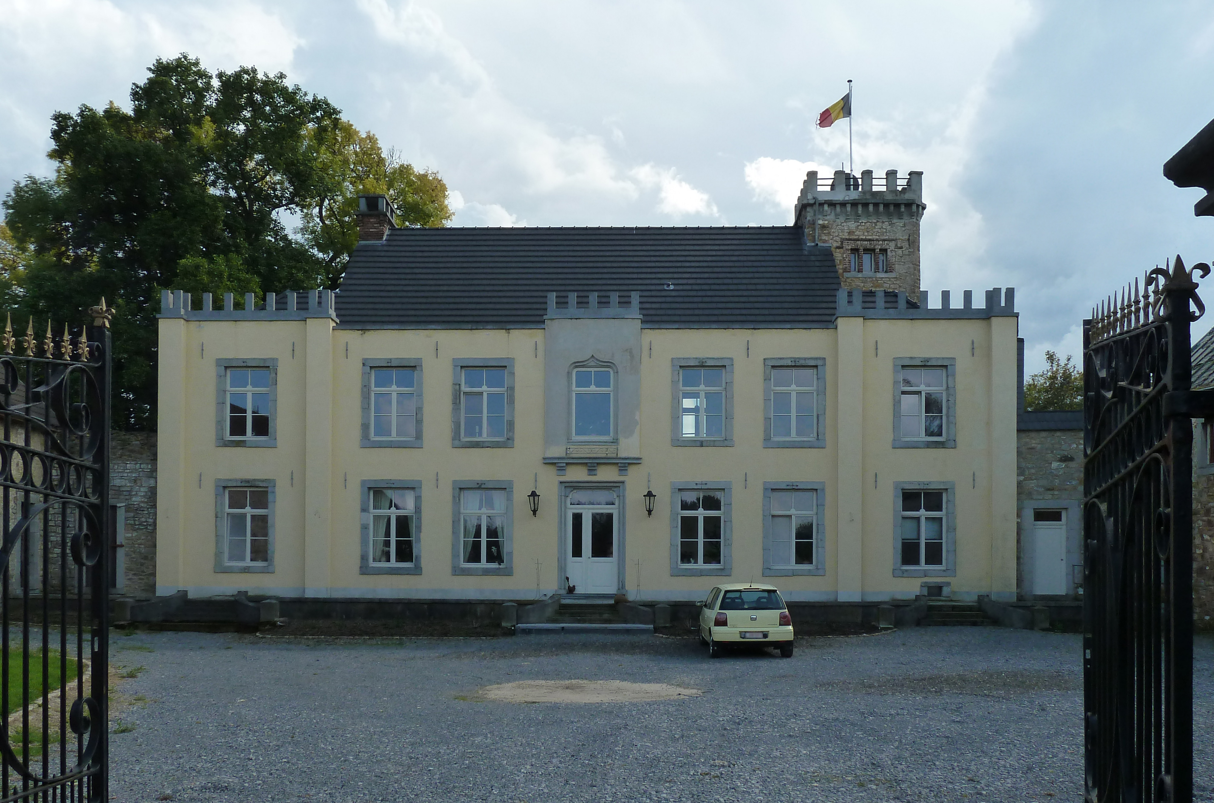 Castle Knoppenburg and surrounding area, Raeren, Belgium